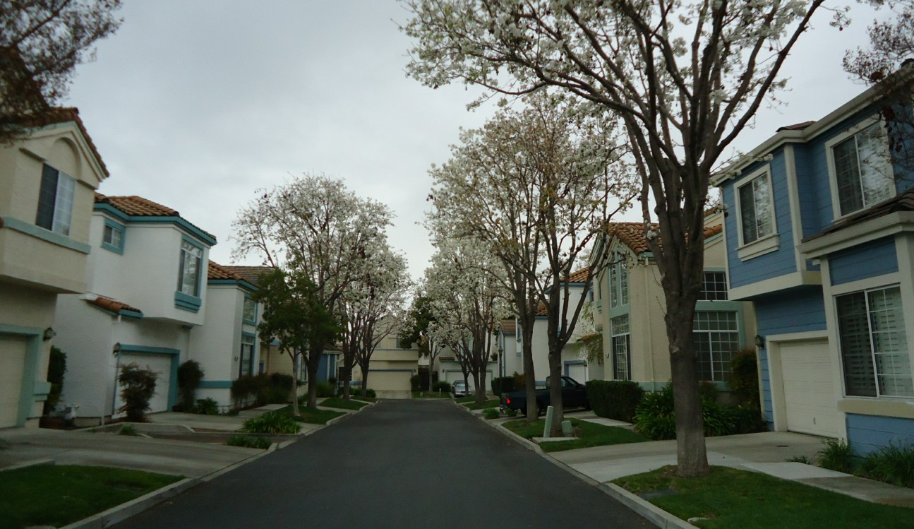 Housing development in Santa Clara, California